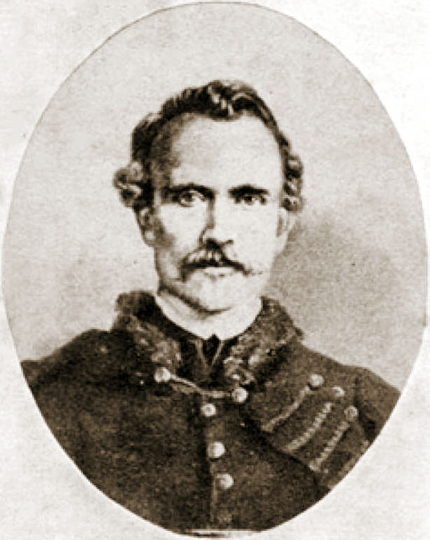 Zygmunt Sierakowski (Dołęga coat of arms), Polish commander of insurgent forces in Powstanie Styczniowe ( The January Uprising in Poland 1863-1864)